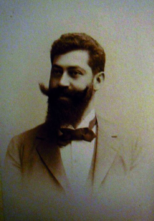 Photo of the austrian architect Jakob Gartner, taken in 1894.